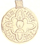 Seal of Margaret I of Denmark, Norway and Sweden, based on 19 documents, dated 1381–1409. Text: "+ secre + tum ++ secre ++ tum +". Size: 28 mm.